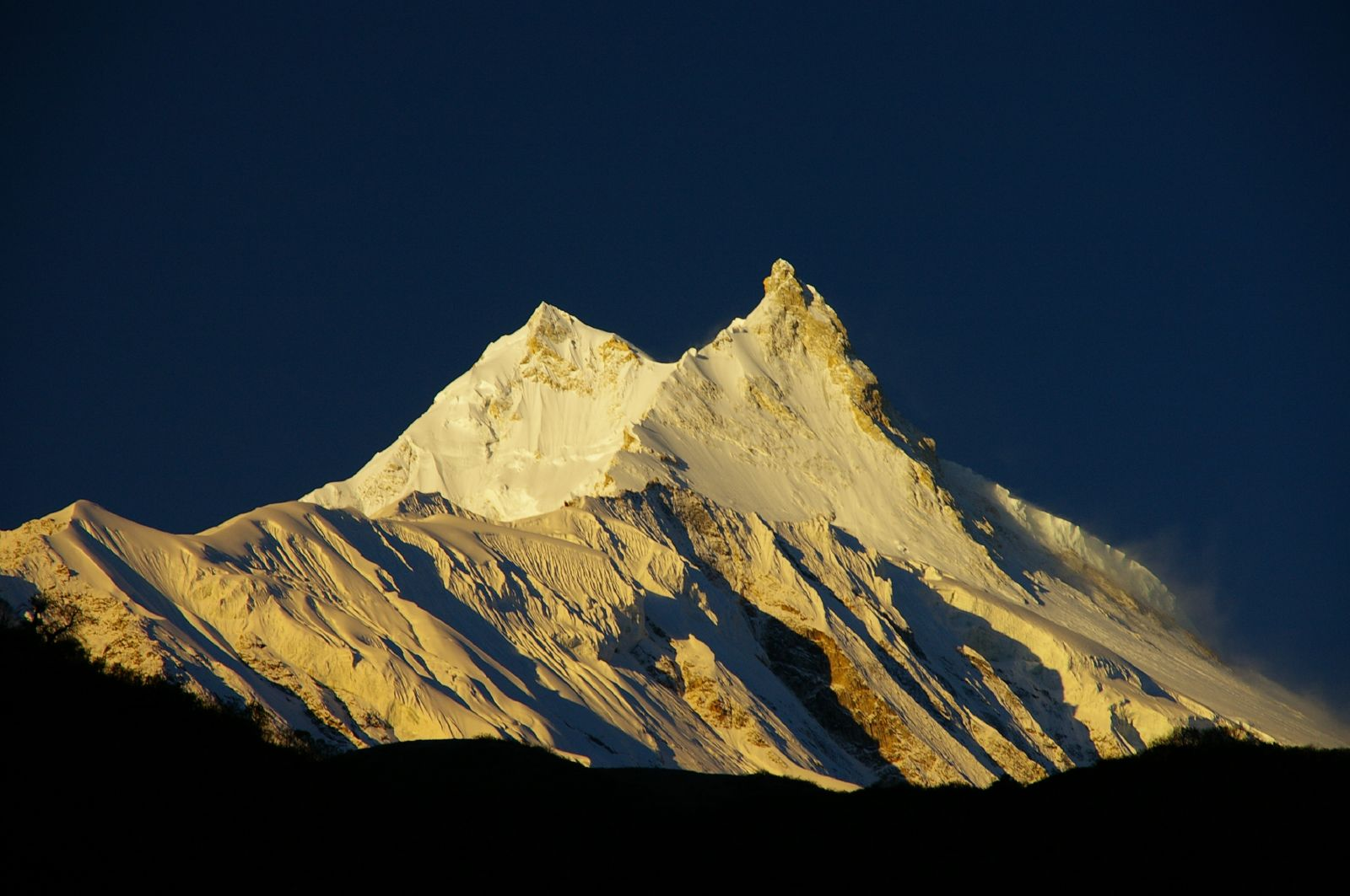 Sunrise, Manaslu, Nepal, Himalaya